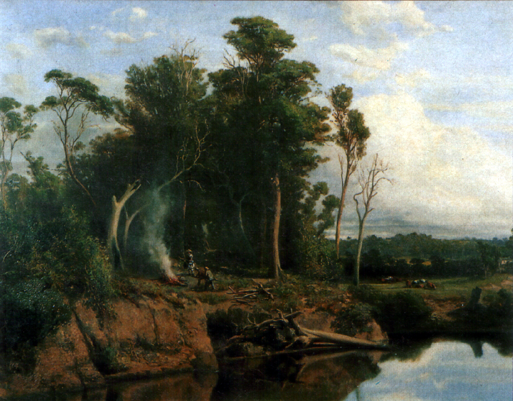 Yarra River, Melbourne)